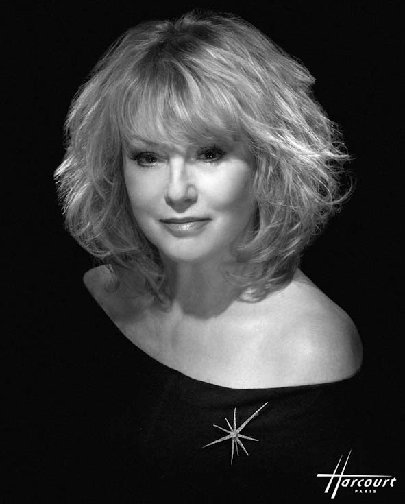 Mylène Demongeot photographed by Studio Harcourt Paris